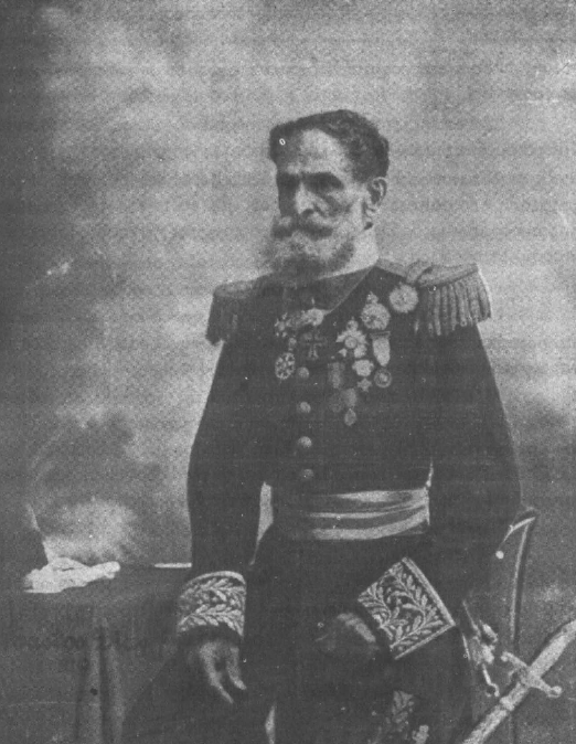 Last known photograph of Brazilian president Deodoro da Fonseca, in late 1891